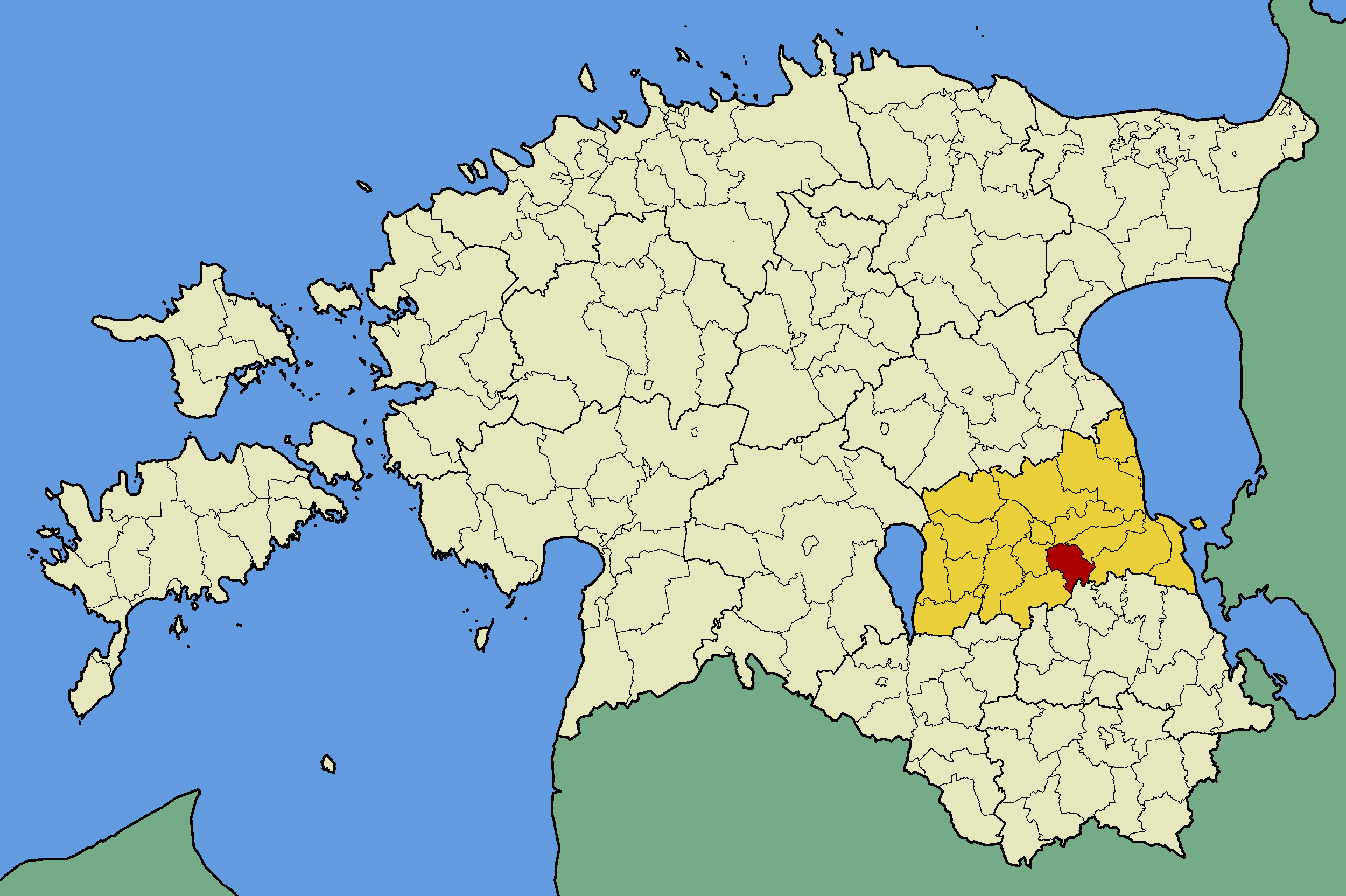 Map of Estonia with borders of municipalities (parishes). Tartu county and Haaslava municipality emphasized.